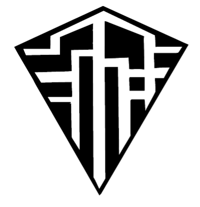 Logo of the Manchurian Aircraft Manufacturing Company. Logo is based on this article